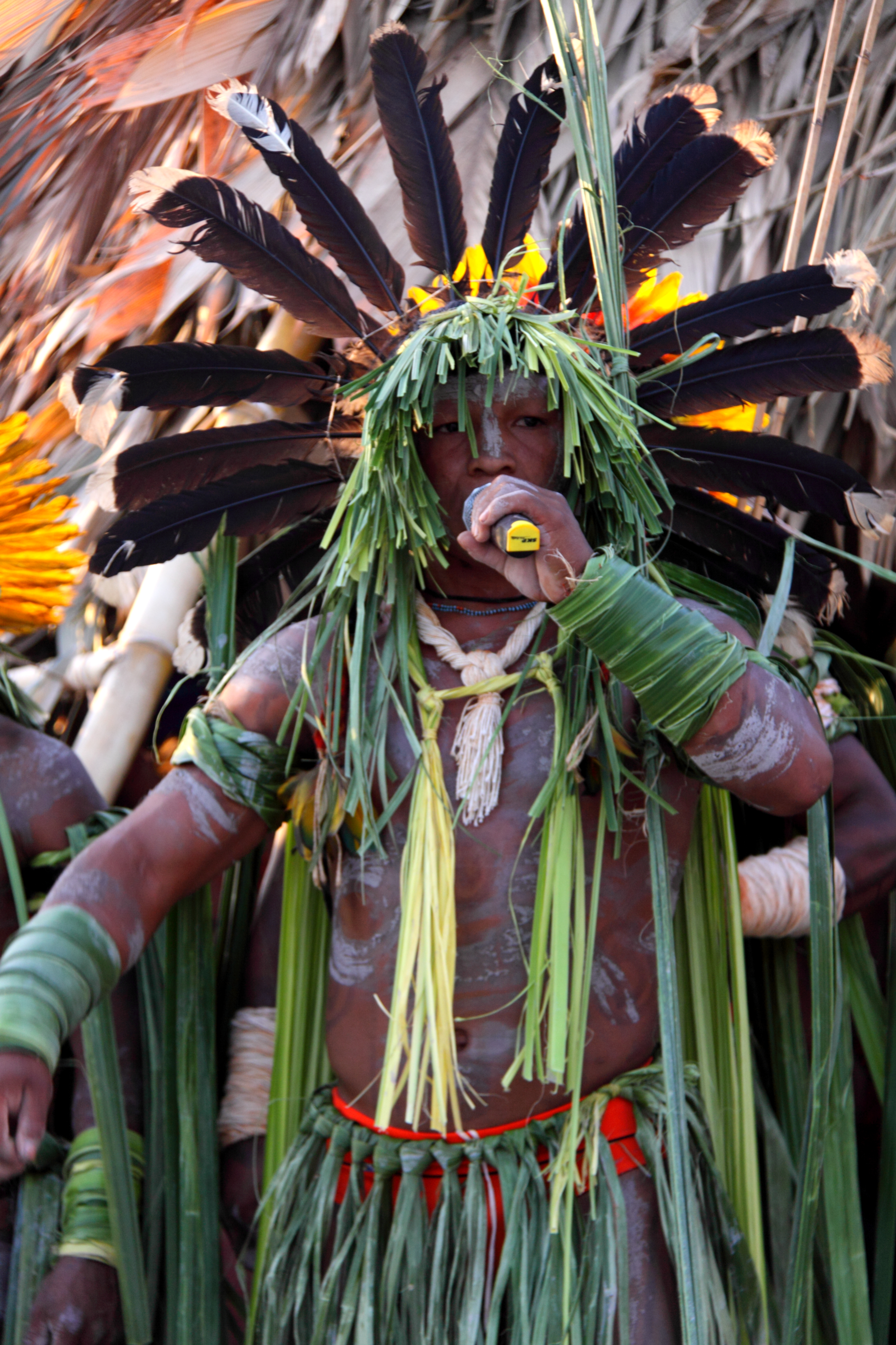 Indian from South America, (Enawene Nawe tribe) from Mato Grosso, Brazil